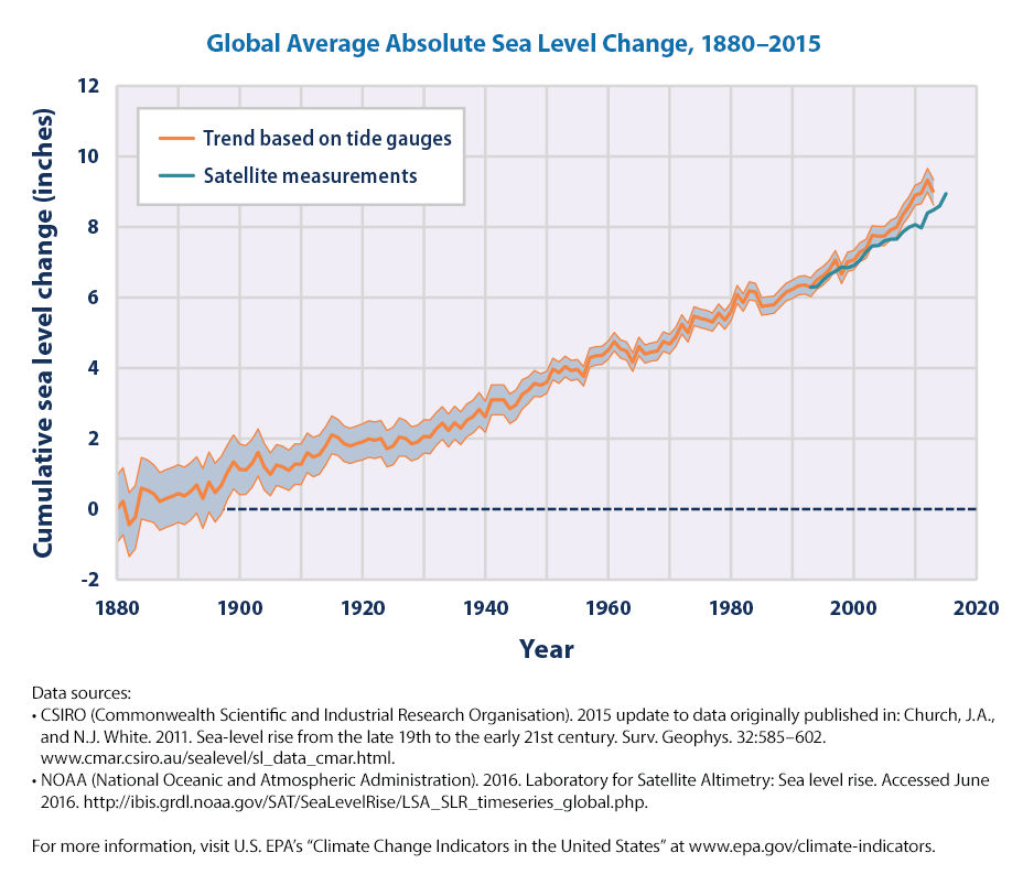 The image shows trends in global average absolute sea level from 1880 to 2013. From the public domain source, the US EPA (2014): "This figure shows average absolute sea level change, which refers to the height of the ocean surface, regardless of whether nearby land is rising or falling. Satellite data are based solely on measured sea level, while the long-term tide gauge data include a small correction factor because the size and shape of the oceans are changing slowly over time. [...]The shaded band shows the likely range of values, based on the number of measurements collected and the precision of the methods used.